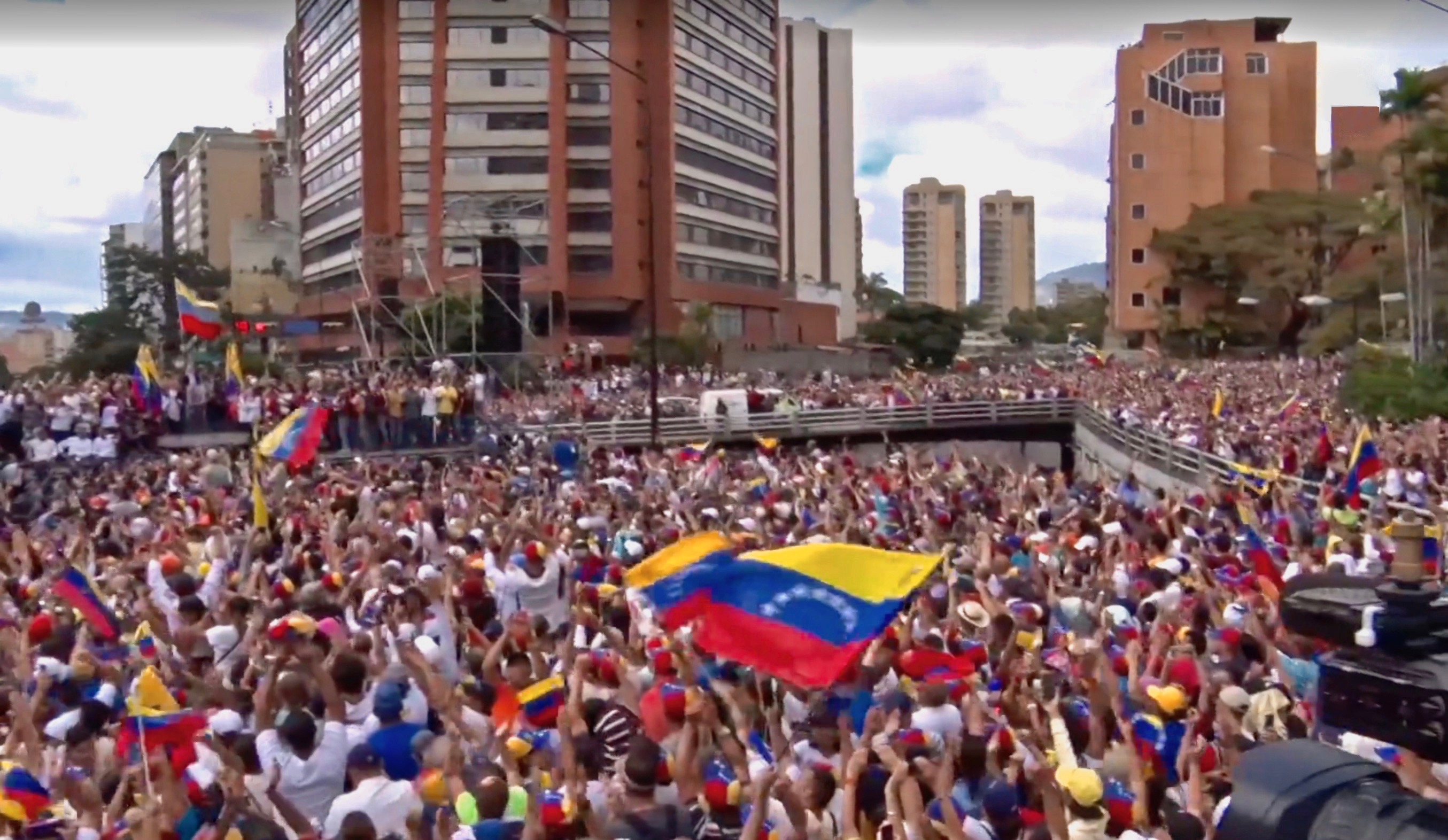 Sí se puede march in Caracas, Venezuela, with some of the millions of Venezuelans who protested shown.